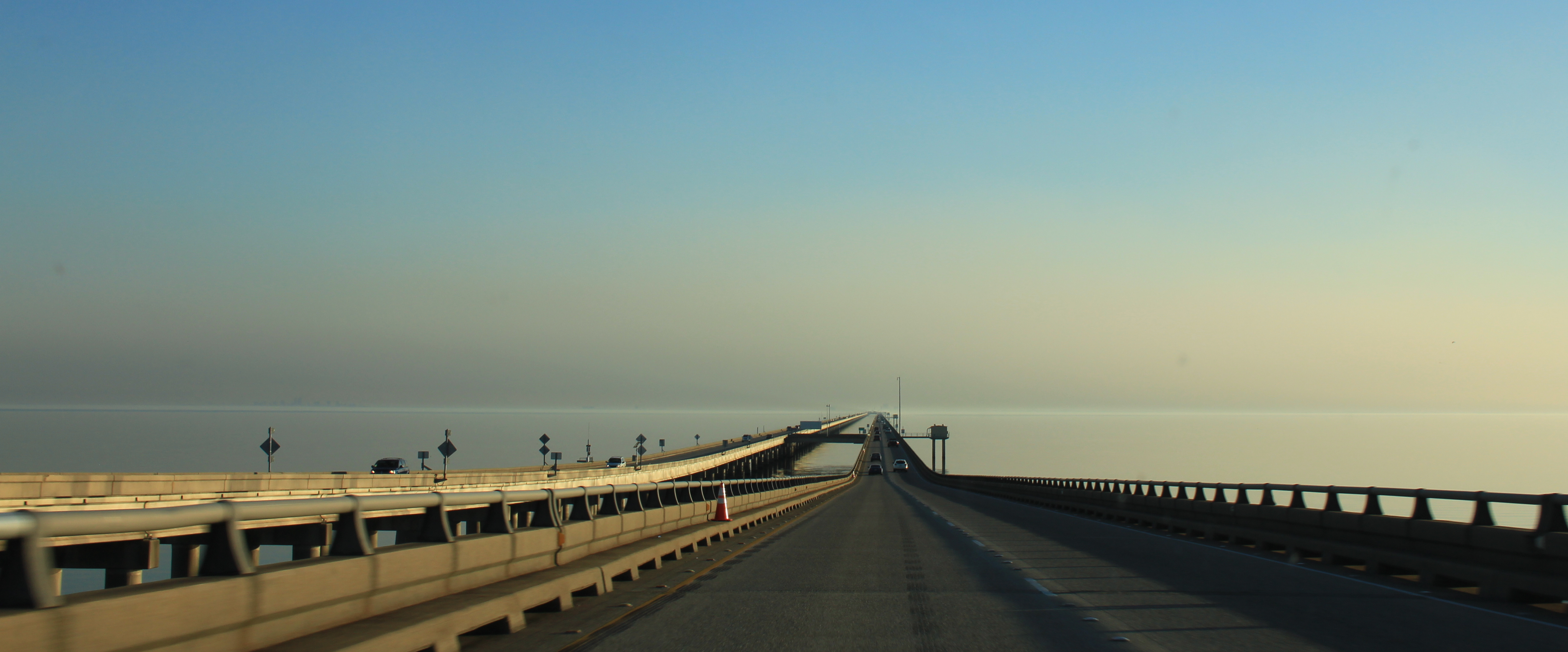 Lake Pontchartrain Causeway